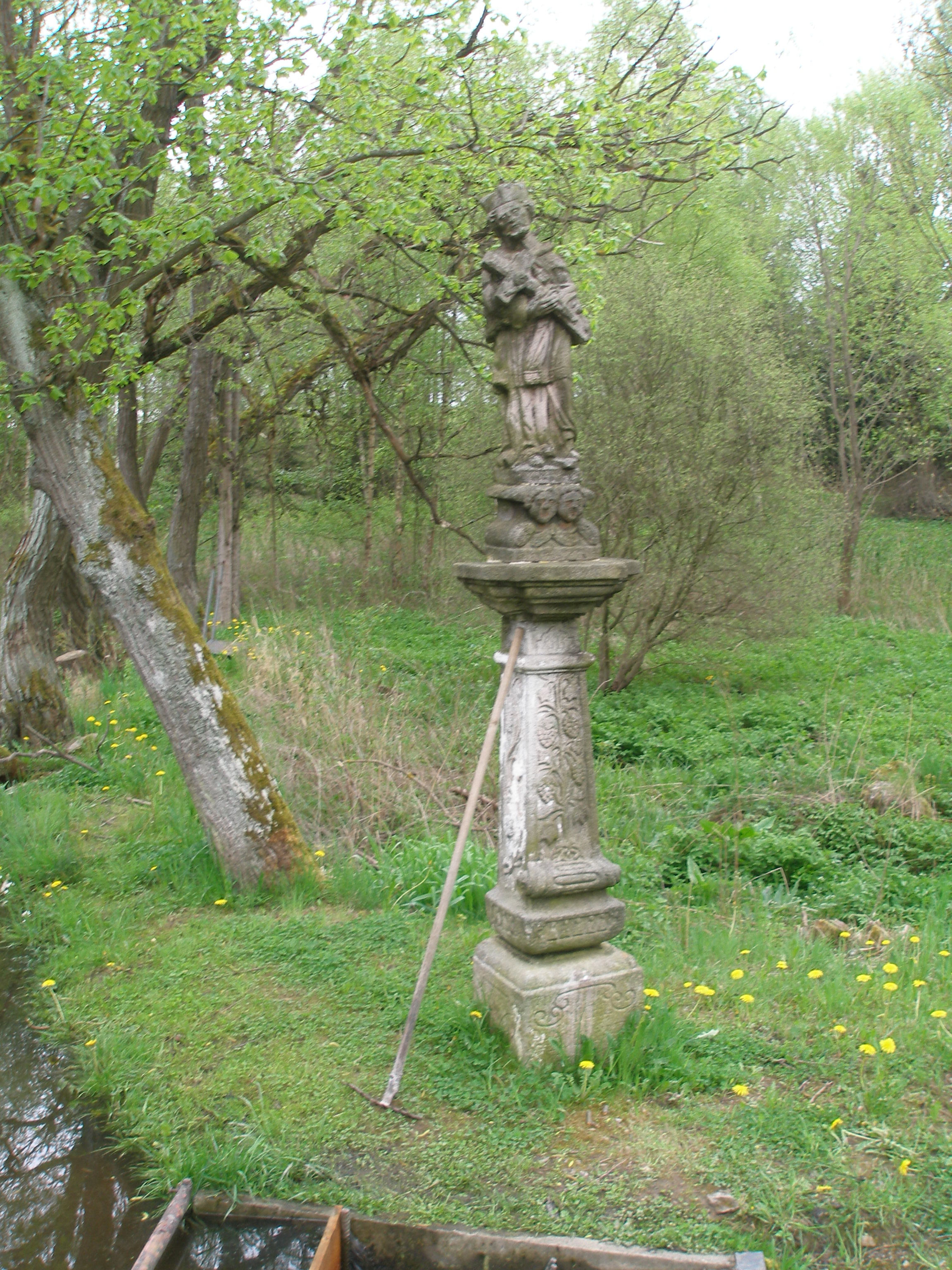 The statue of Saint John of Nepomuk in Mýto